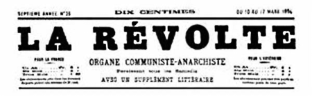 La Révolte, former Le Révolté, french anarchist newspaper.